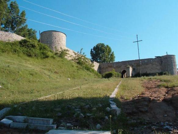 Ganja Gates of Shusha's fortress